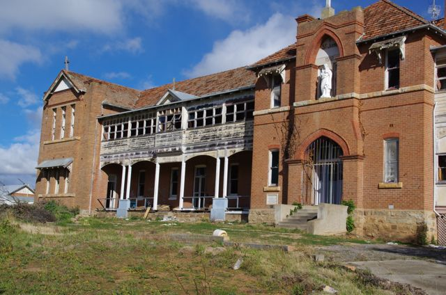 St John's Orphanage, Goulburn - front elevation, Main entry and southeastern wing